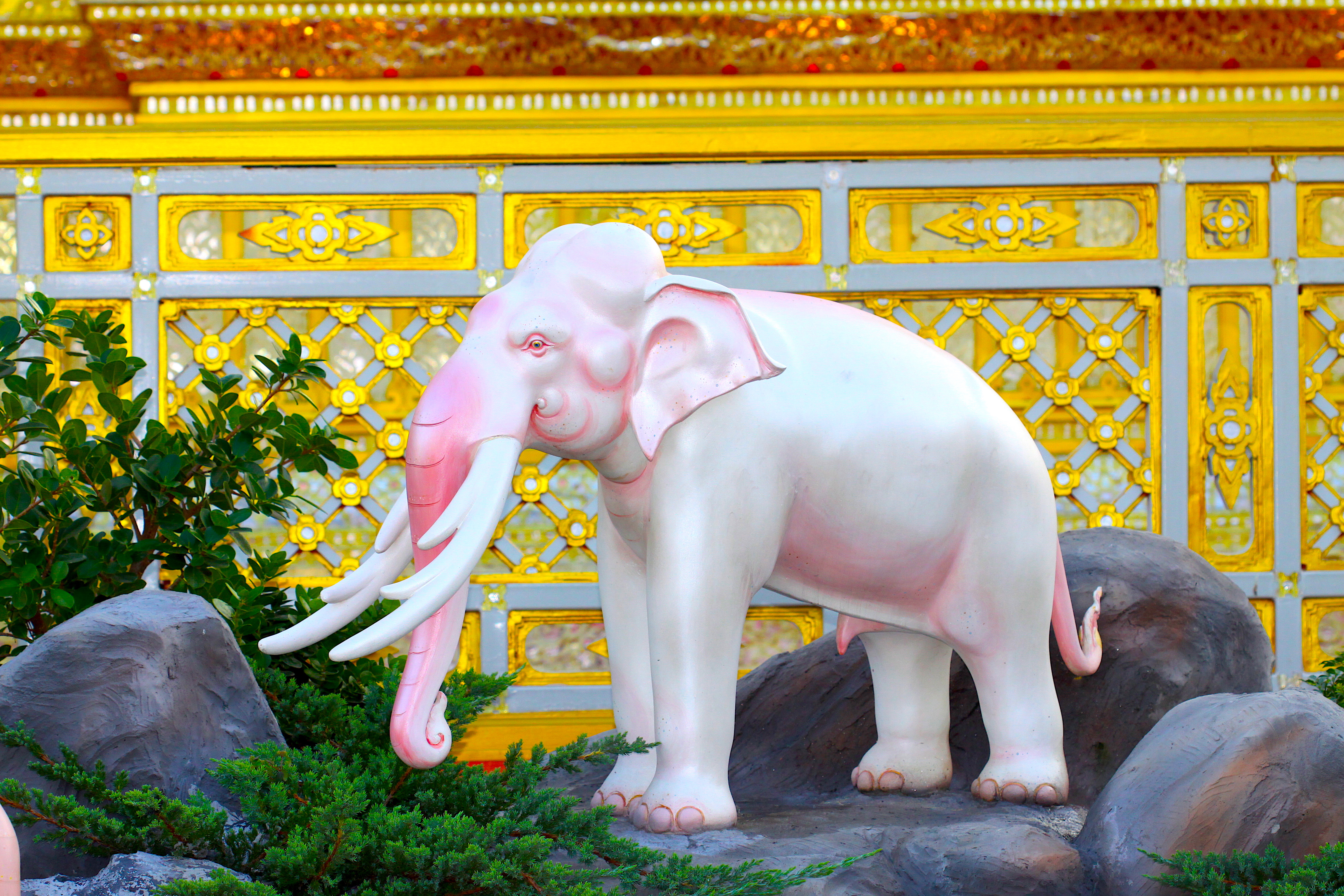 Himmapan Animal on Royal Crematorium King Rama 9 of Thailand.